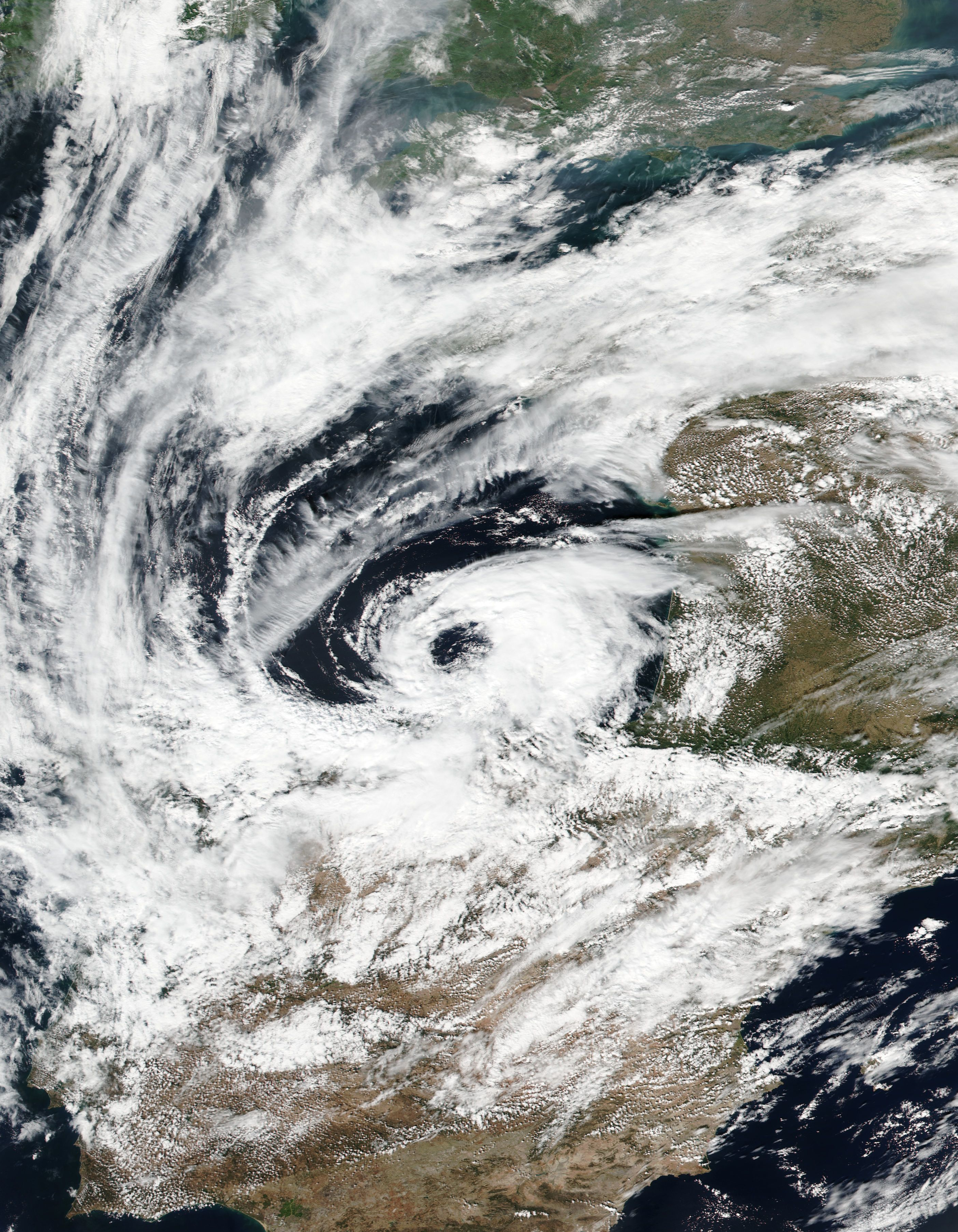 Satellite image of a cyclone with some tropical characteristics in the Bay of Biscay on September 15, 2016. Some meteorologists, such as Météo-France, claim that this was a subtropical storm, however, the National Hurricane Center has not stated anything about this storm, likely classifying it as an extratropical cyclone.